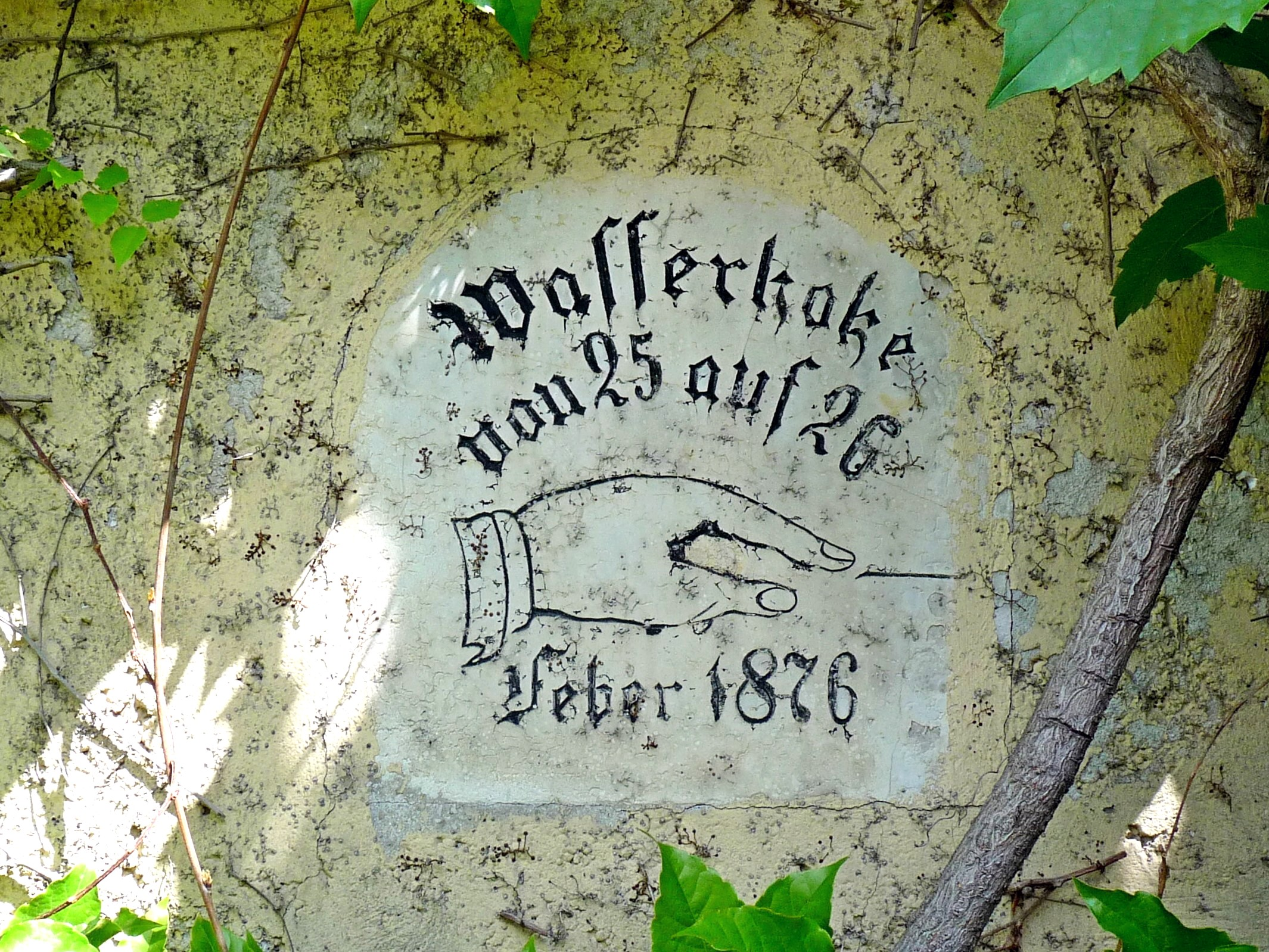 Level sign of the Danube flood of 1876. It is marked on the exterior wall at the height of 64 cm near the main entrance of the Virgin Mary on Stone parish church. (Budapest, District III, Szentendrei Avenue Nr 69-71)